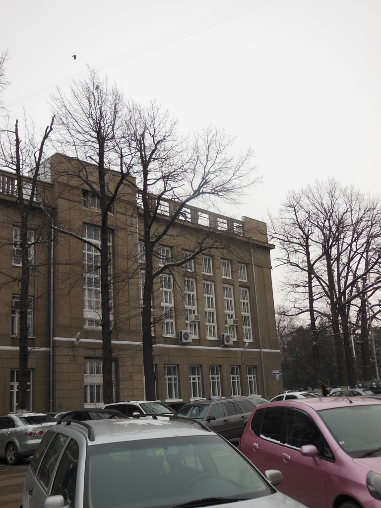 The building of Presidium of supreme Soviet in Kyrgyzstan